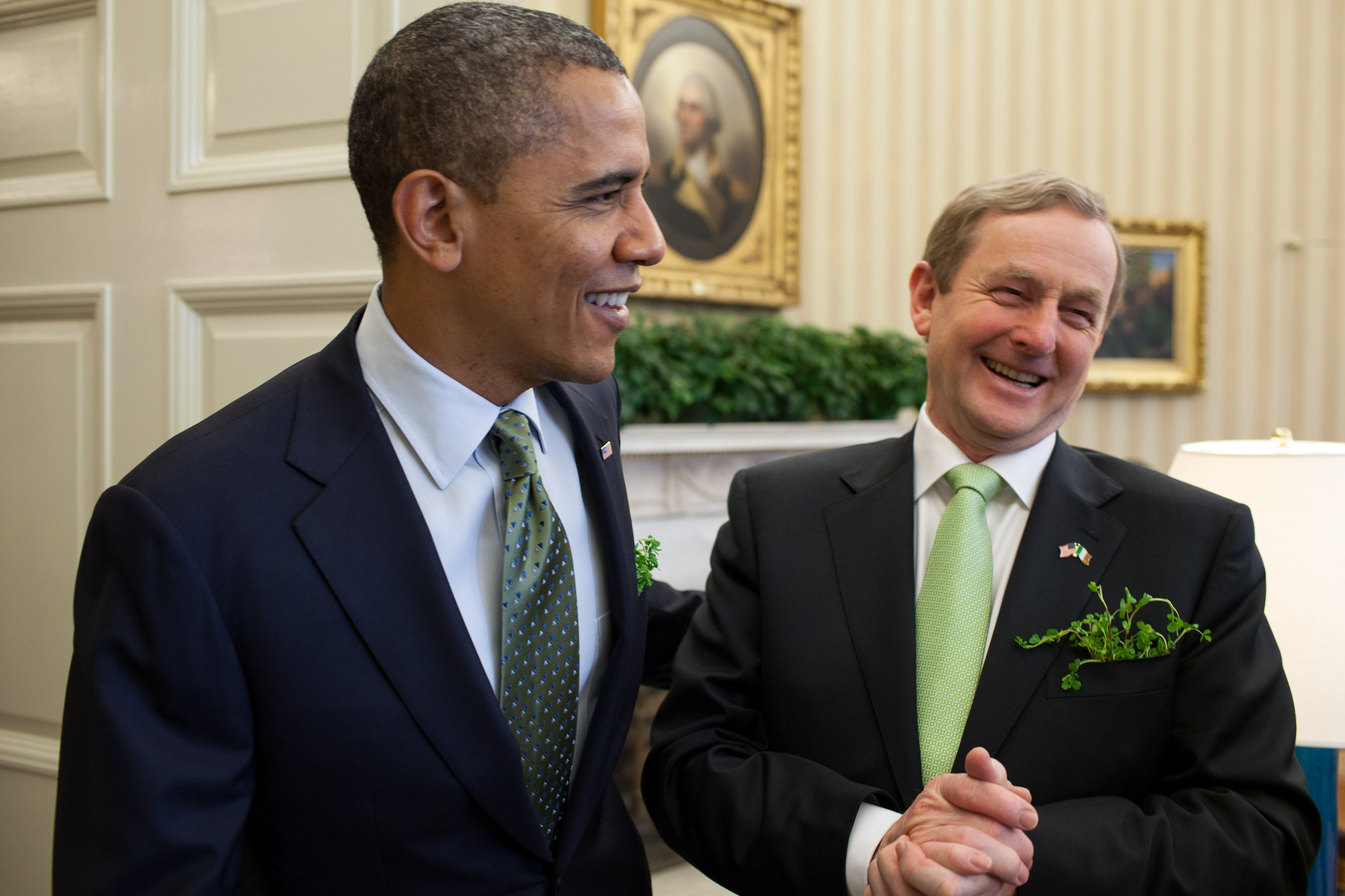 United States President Barack Obama and Taoiseach Enda Kenny from Ireland during a meeting in the Oval Office on the morning of 20 March 2012. The President, the Vice President Joe Biden, and the Taoiseach later attended the House Speaker's Friends of Ireland luncheon held every year on or about Saint Patrick's Day in the Capitol. Both men are wearing shamrock in their pockets and green ties to honour the Irish national holiday which occurred on 17 March 2012. Mr. Kenny is also wearing an Ireland-America friendship lapel pin.